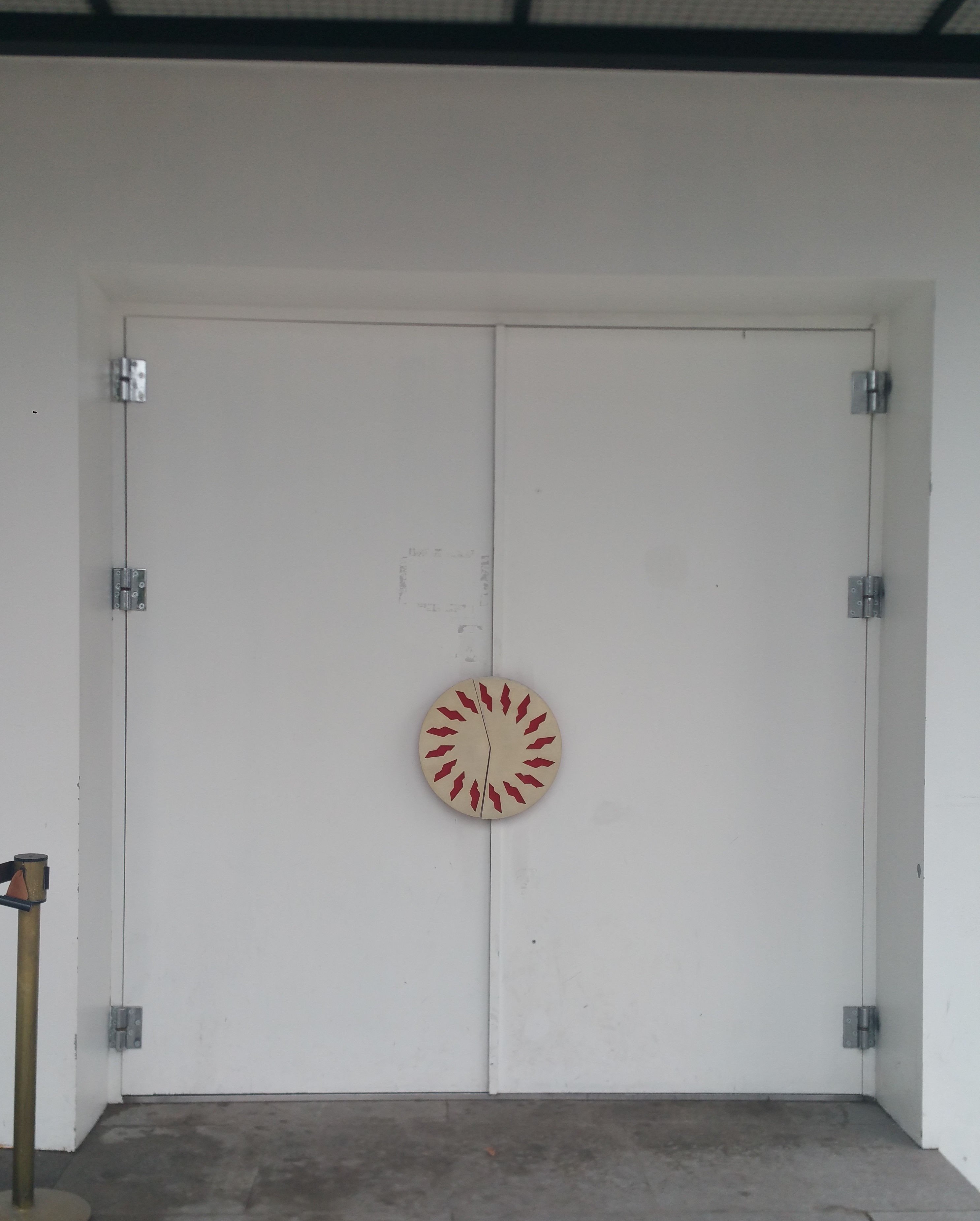 Le Meridien Hotel, Gangnam, closed entrance of Burning Sun nightclub.